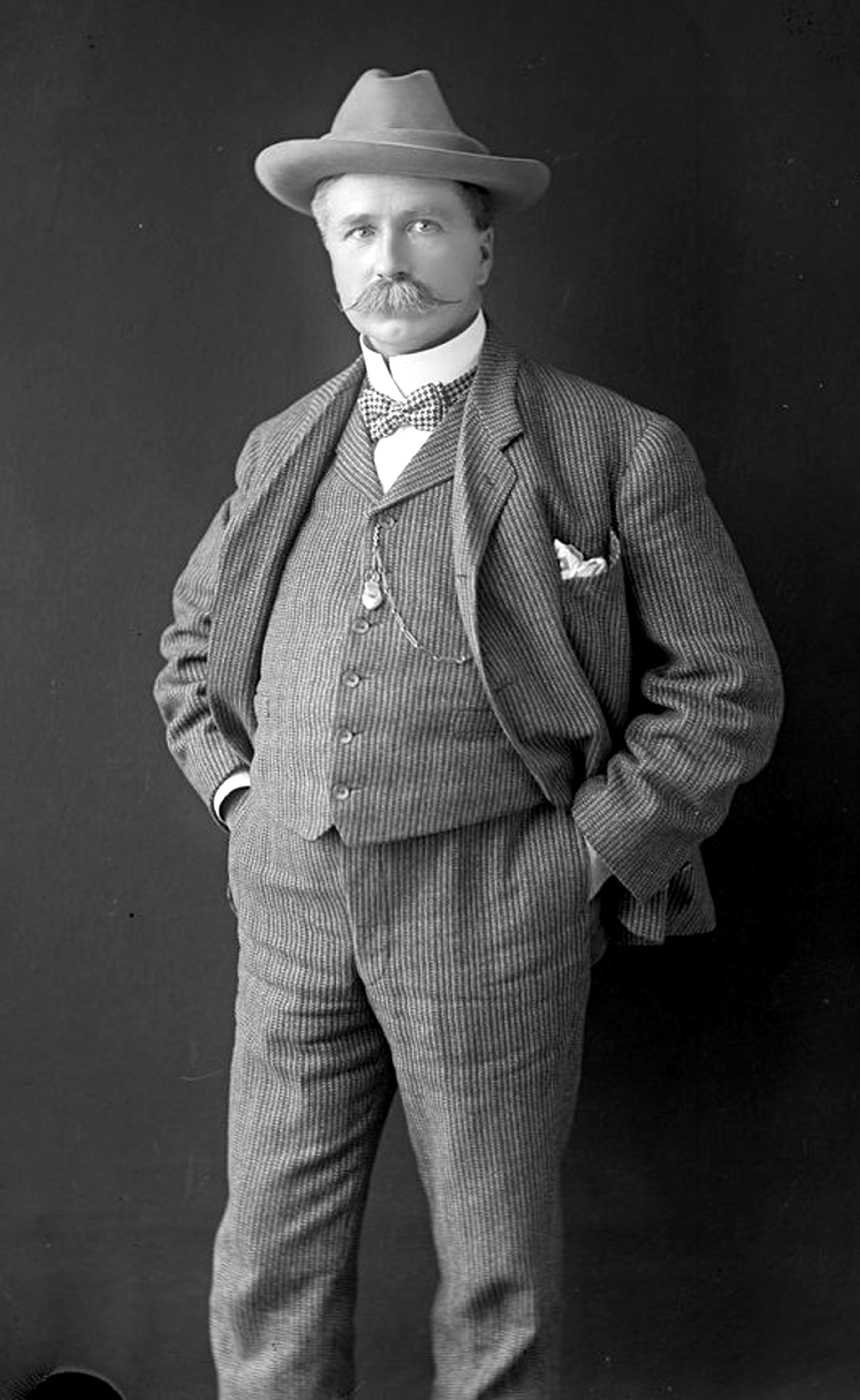 David F. Barry, 1900 - self portrait